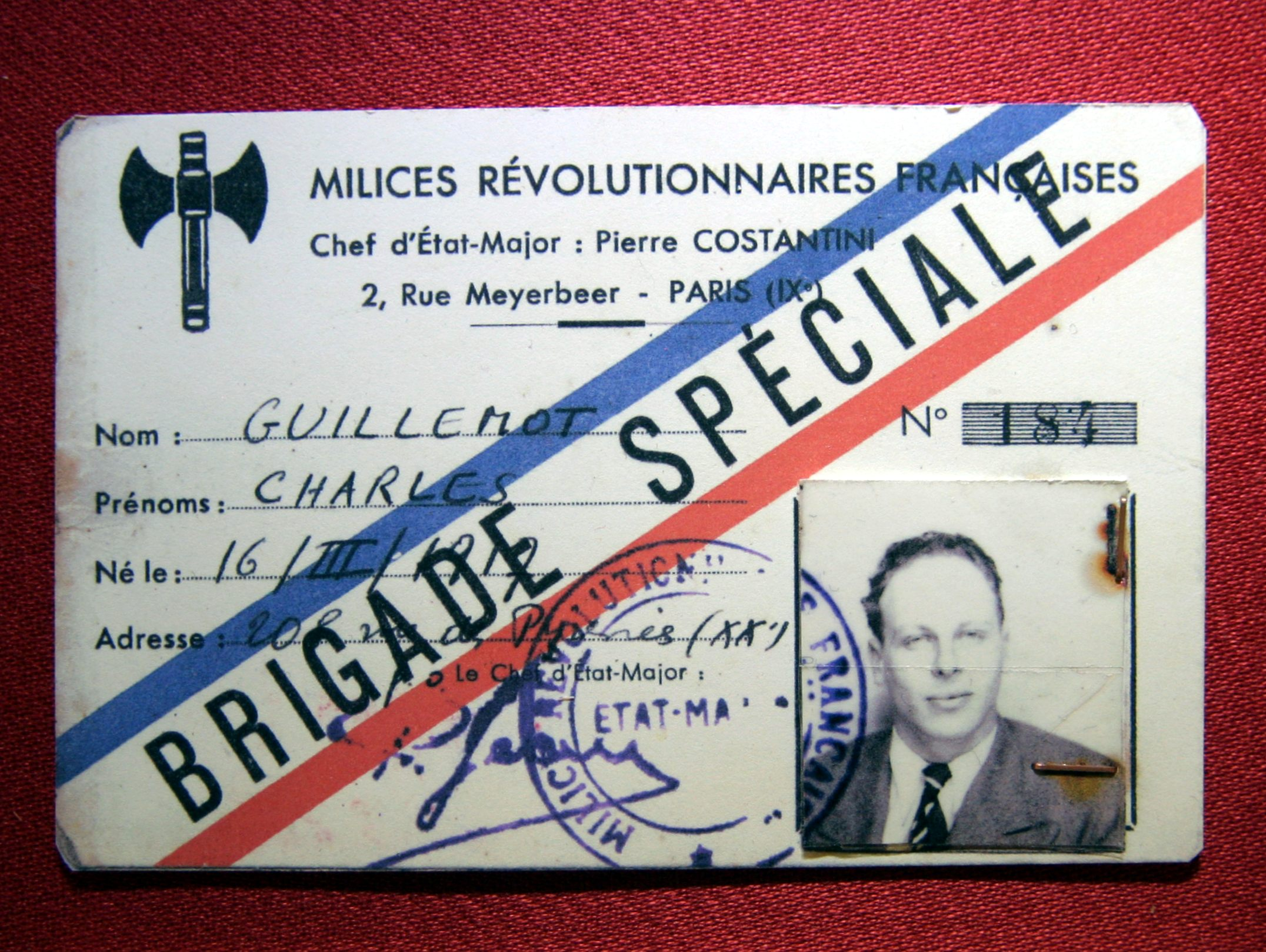 Fake card of the special brigade of the Milices Révolutionnaires Françaises established for the resistant Serge Ravanel under the fake identity Charles Guillemot.